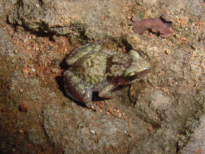 Eleutherodactylus etheridgei